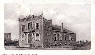 Town hall, Whitewood, Sask. Brantford and Winnipeg. Stedman Brothers Ltd. 1913?.